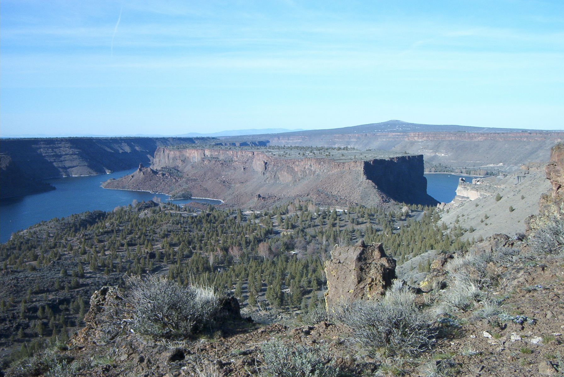 A view of Lake Billy Chinook, Oregon, United States, looking generally north. Taken from the Tam-a-lau Trail on The Peninsula, with a view of The Island research natural area at center, and The Cove Palisades State Park facilities below. On the right is the Crooked River Arm of the lake, with the Deschutes River Arm on the left.